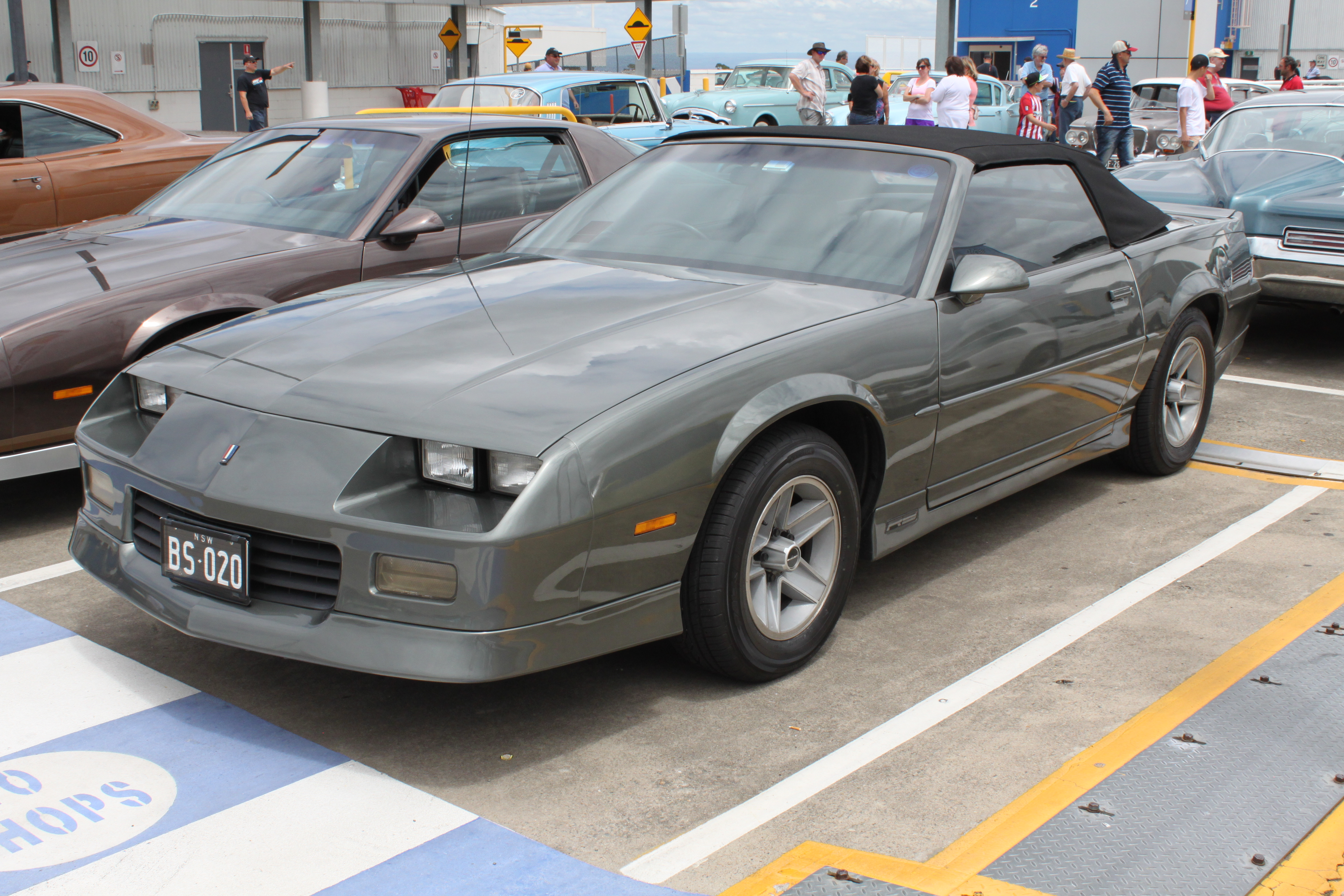 All American Car Show, Castle Hill, NSW January 2016